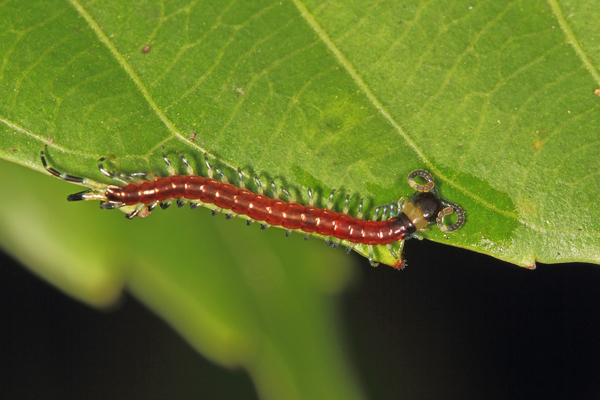 Centipede seen on vegetation at Agumbe, Karnataka, India